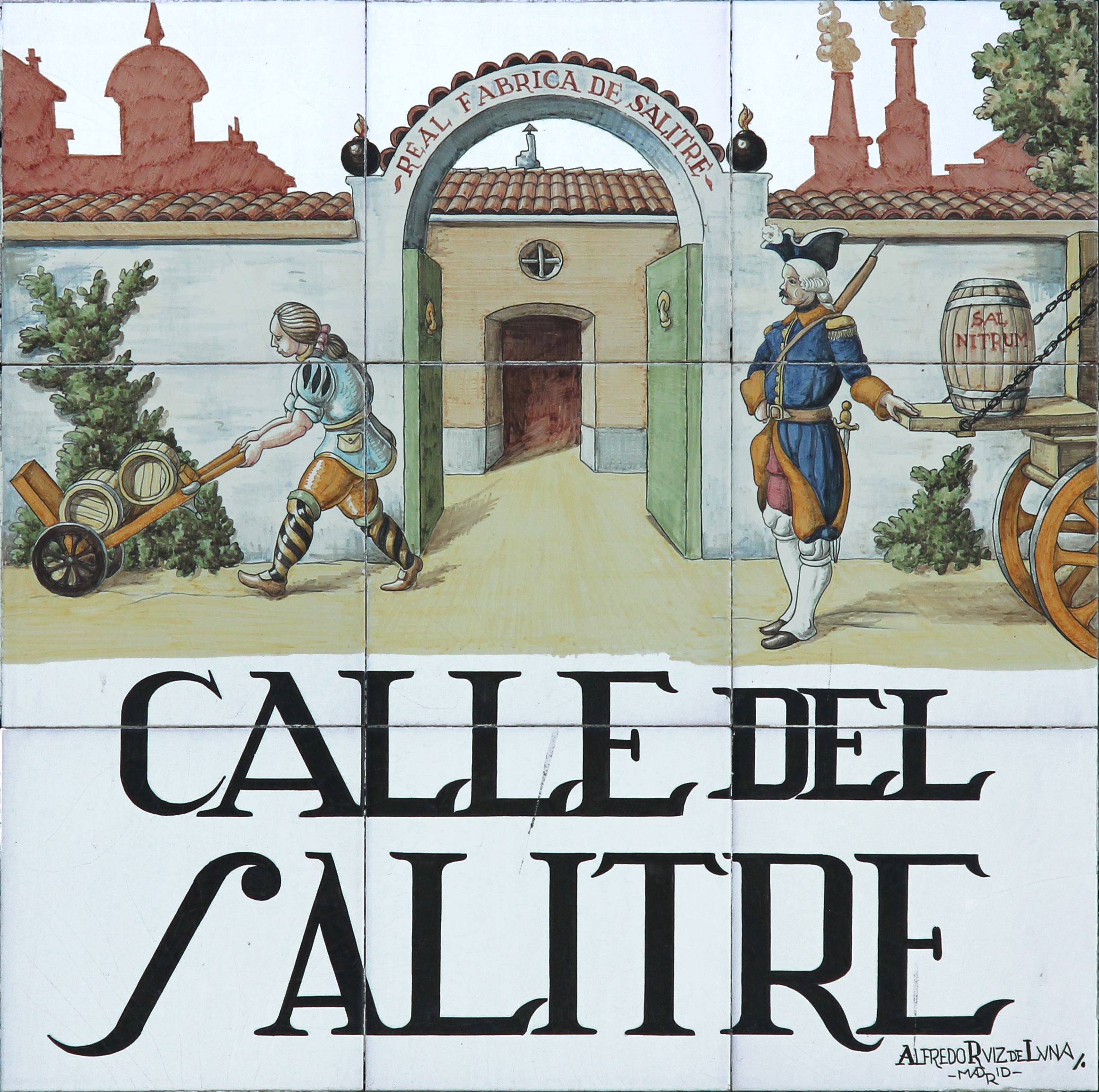 Sign of Calle del Salitre (street) in Madrid (Spain).